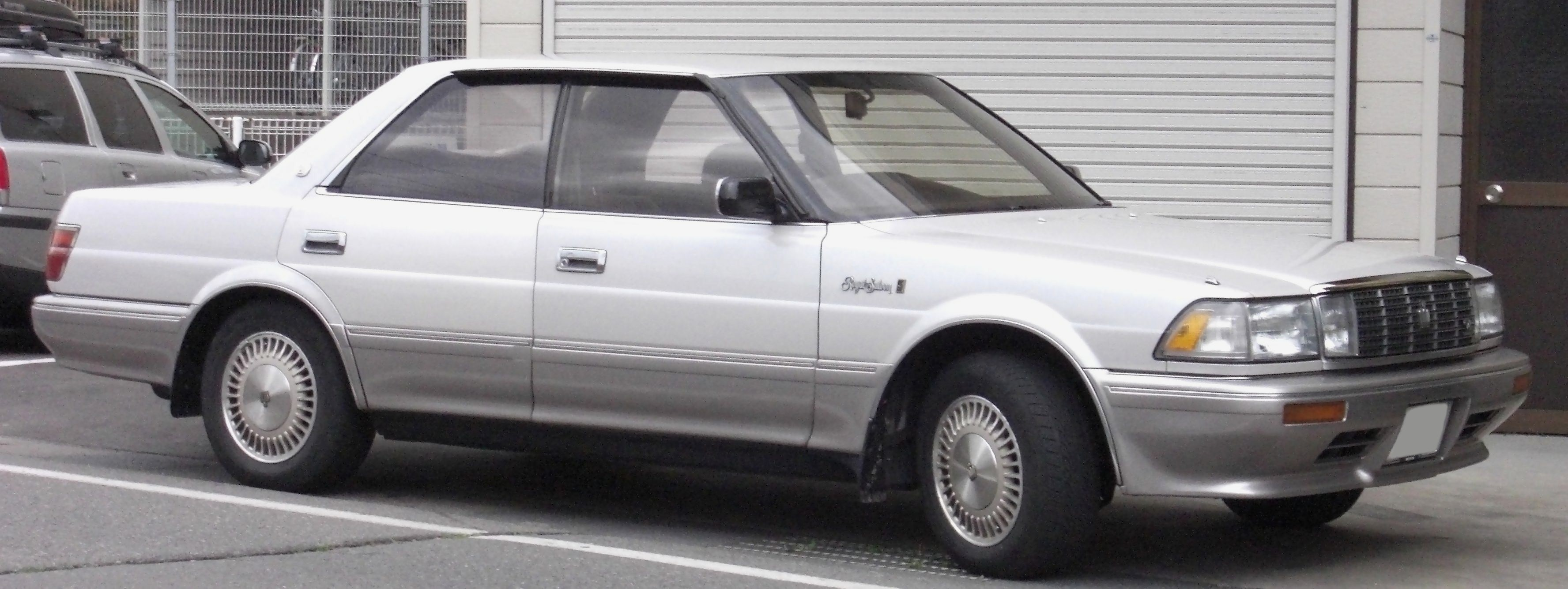 Toyota Crown Hardtop